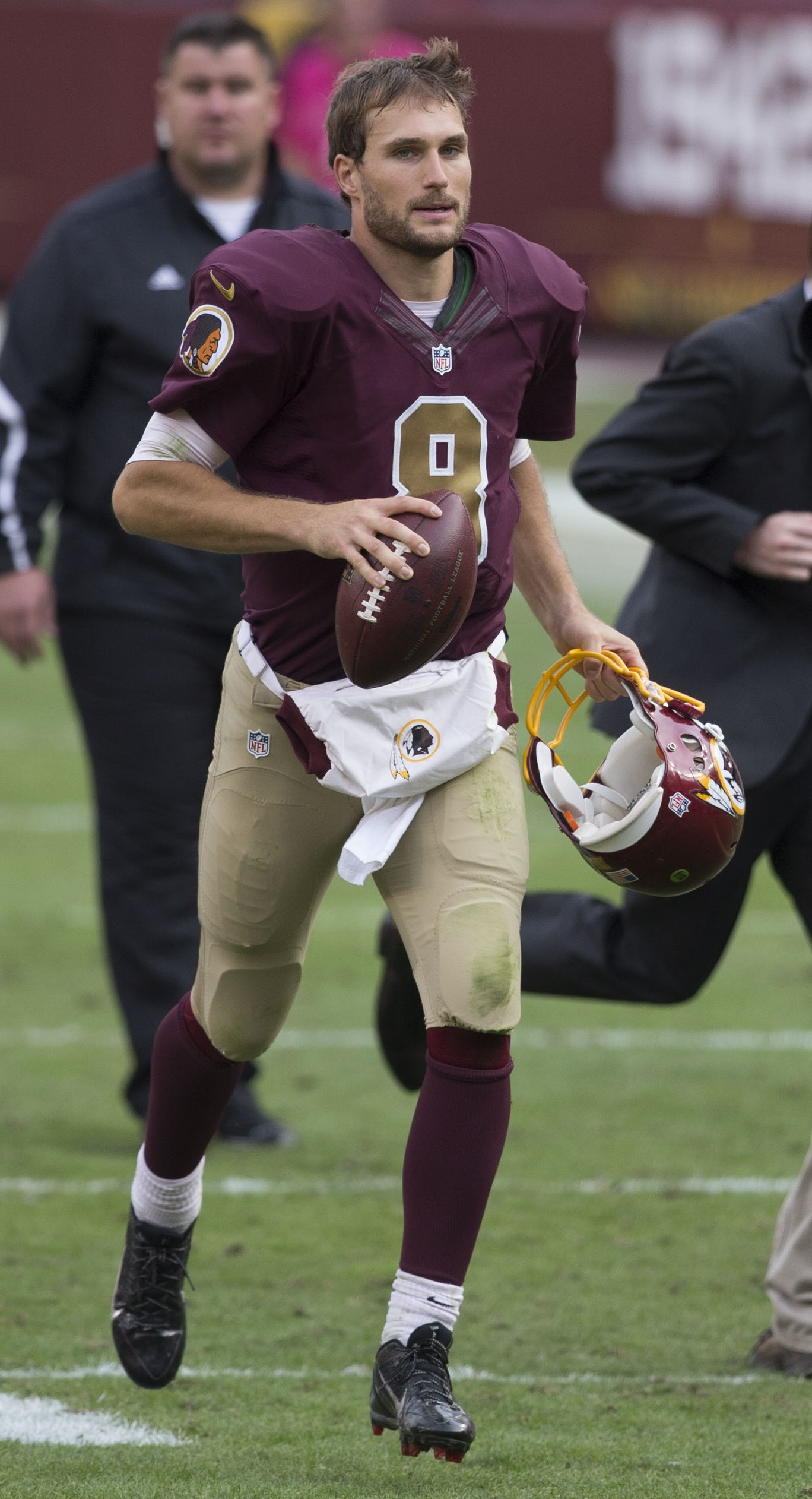 Buccaneers at Redskins 10/25/15